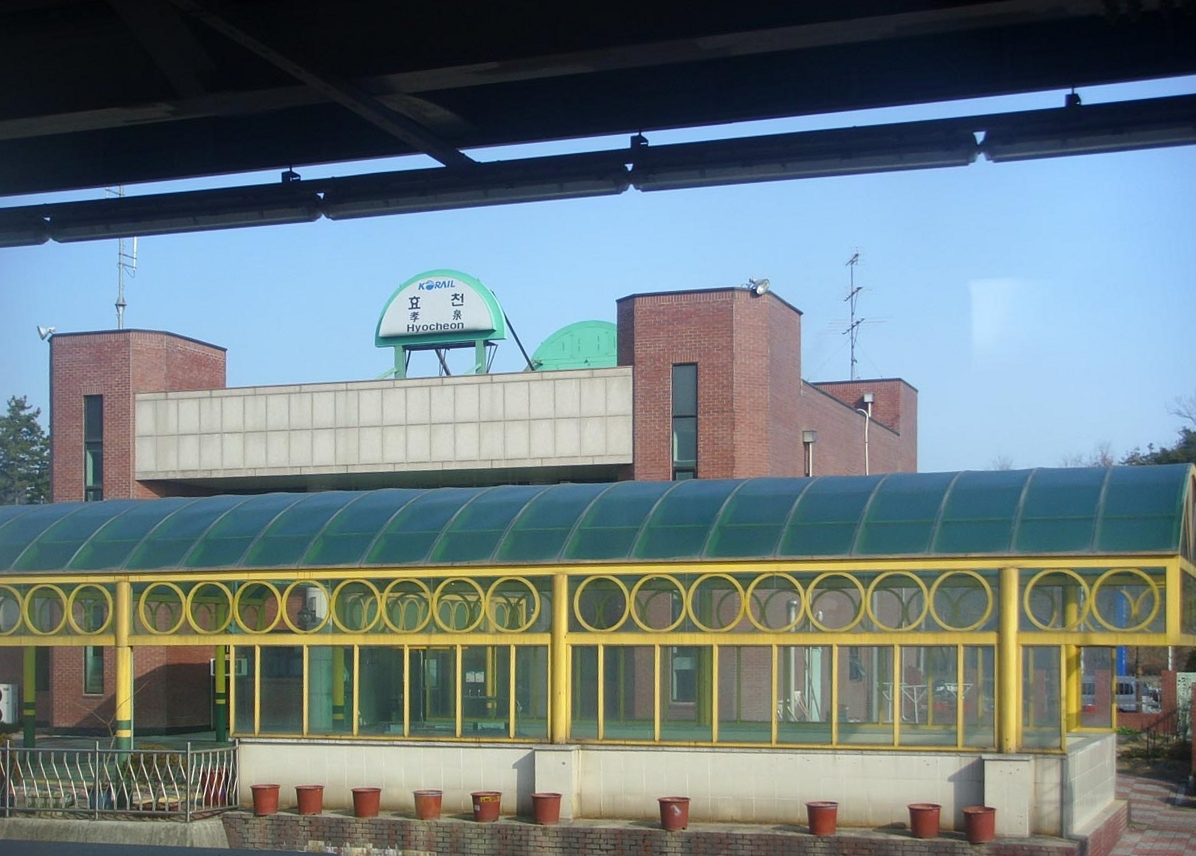 Hyocheon Station (Gyeongjeon Line), Songha-dong, Nam-gu, Gwangju Metropolitan City, S. Korea